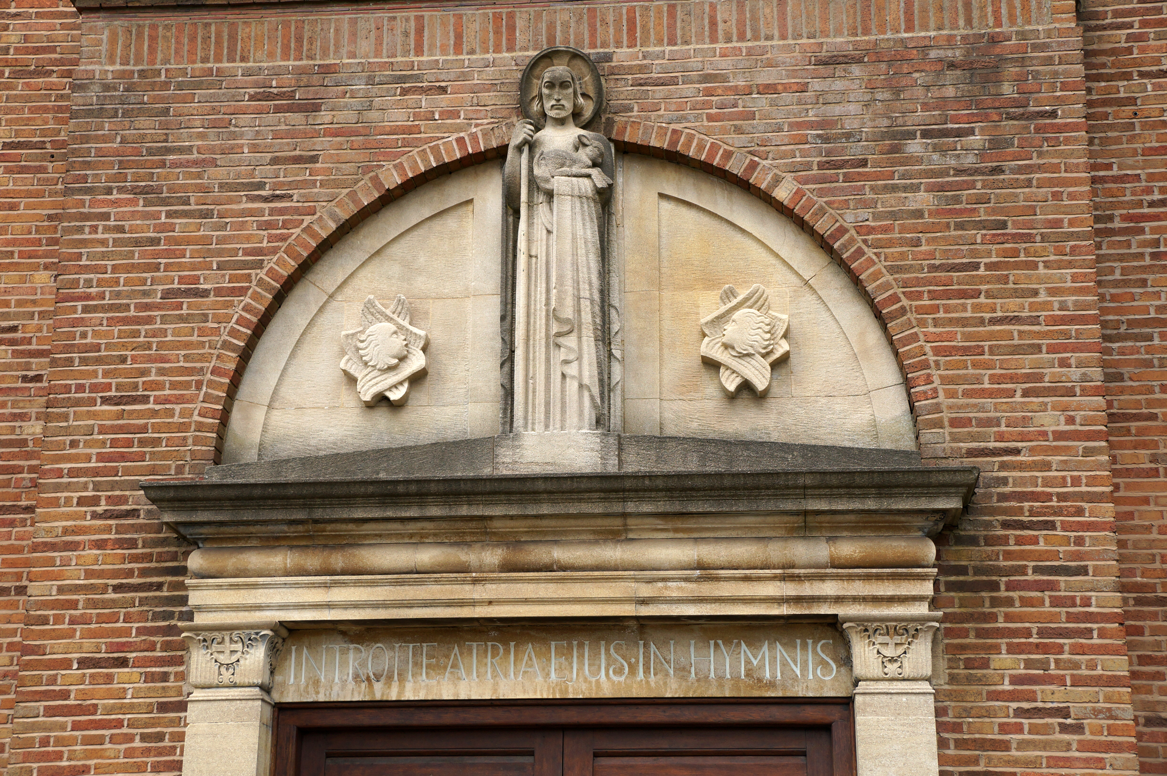 The Good Shepherd sculpture on Christ Church, Burney Lane, Ward End, Birmingham, England by local sculptor William Bloye, c1935. Contrast modified in Photoshop.